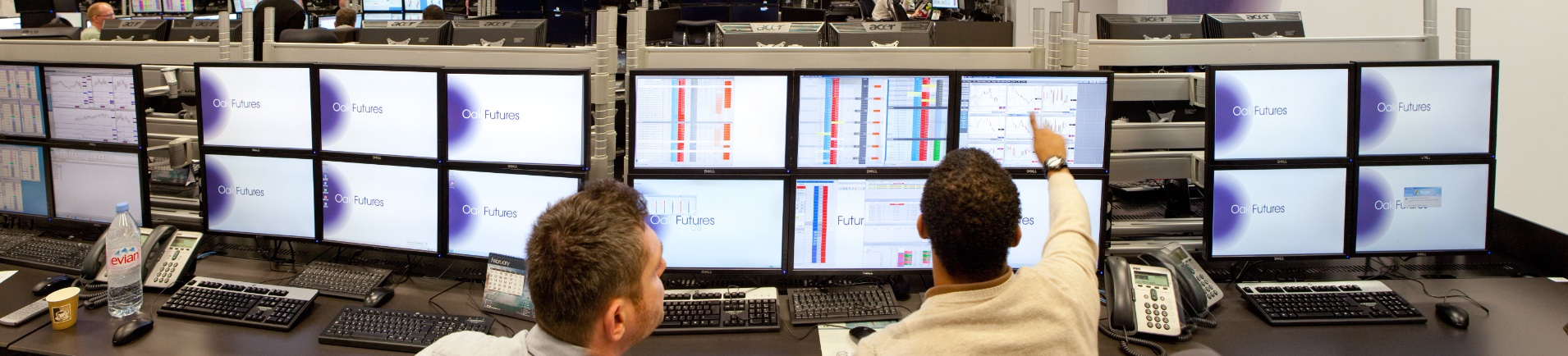 WideShot